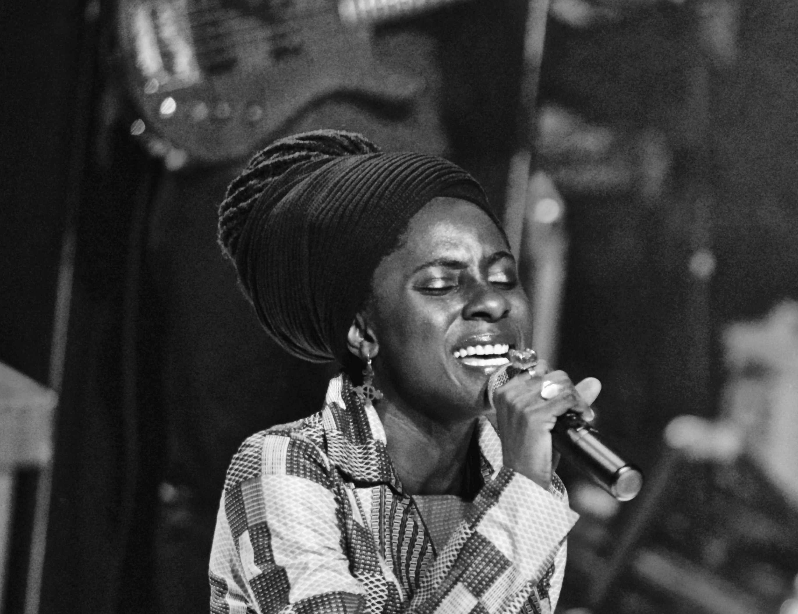 Jah9 in concert at Vooruit in Ghent